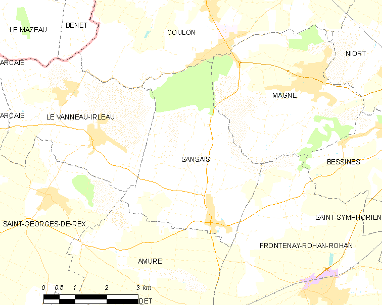 Map of French municipality Sansais